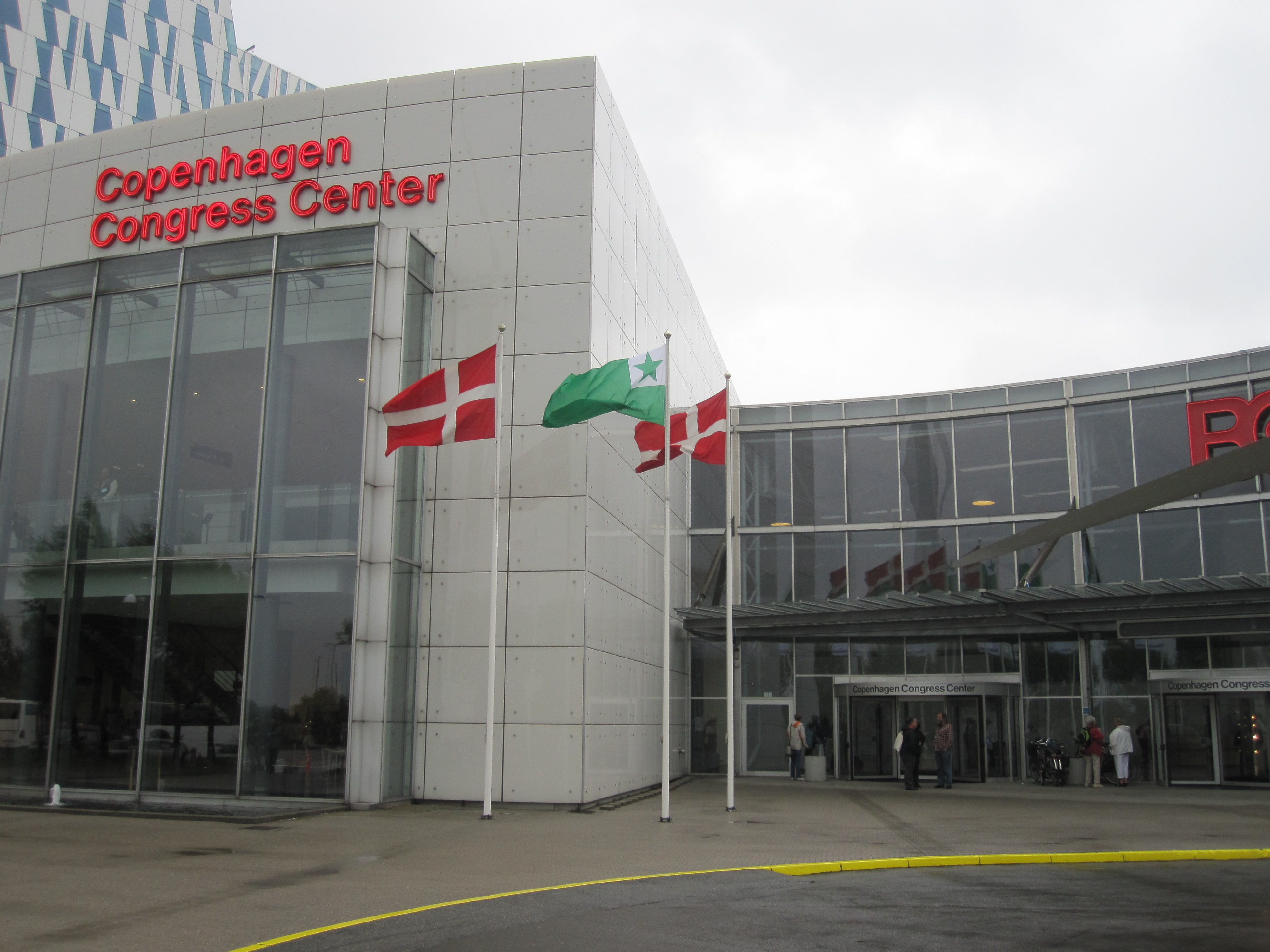 Copenhagen Congress Centre during the World Esperanto Congress 2011